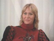 A small screenshot of Agnetha Fältskog from The Story of ABBA, interview recorded on October 1982, first published on December 1982.